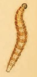 Stainton’s Natural History of the Tineina (1855–1873): Swammerdamia pyrella